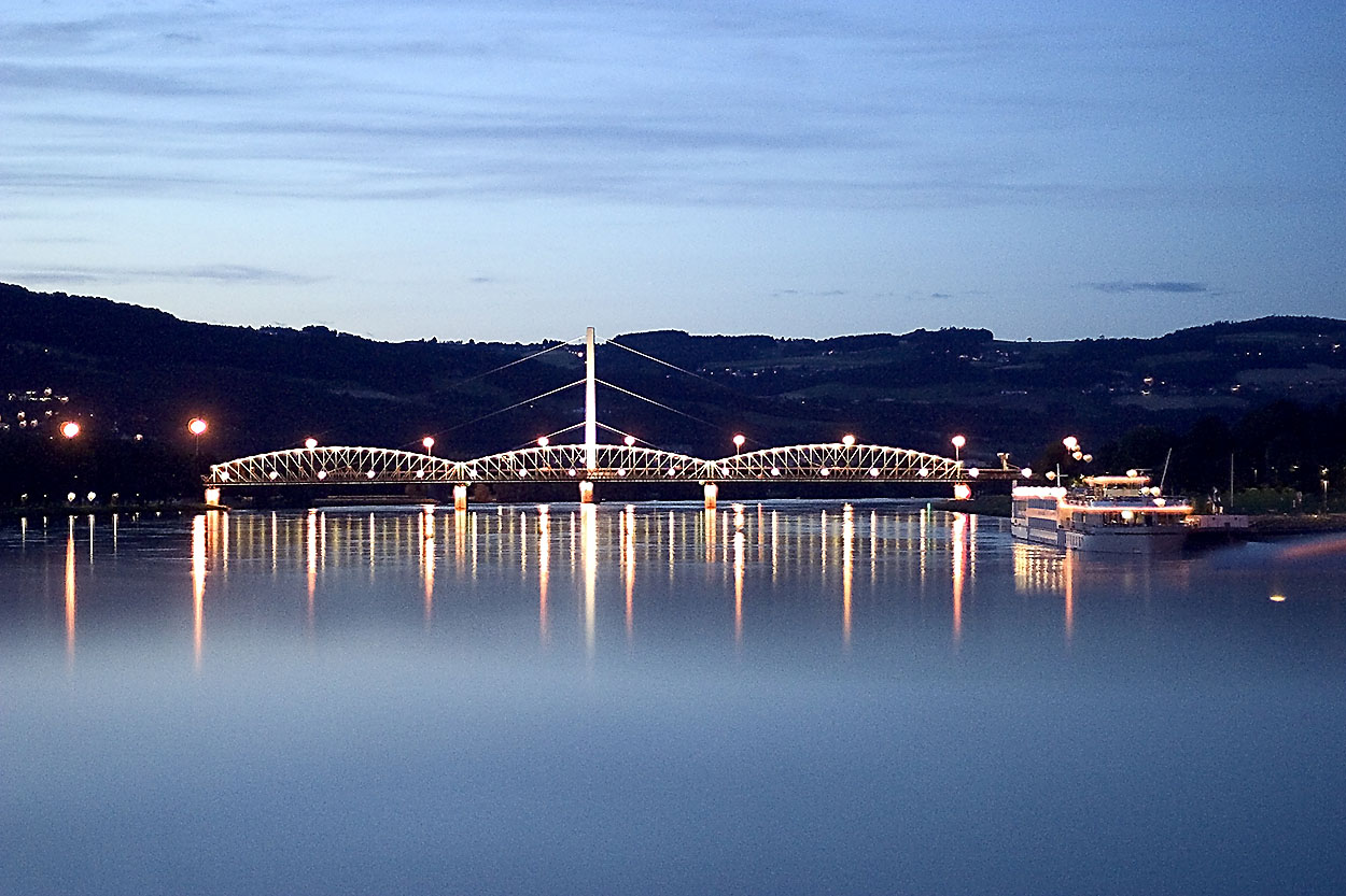 Danube River in Linz